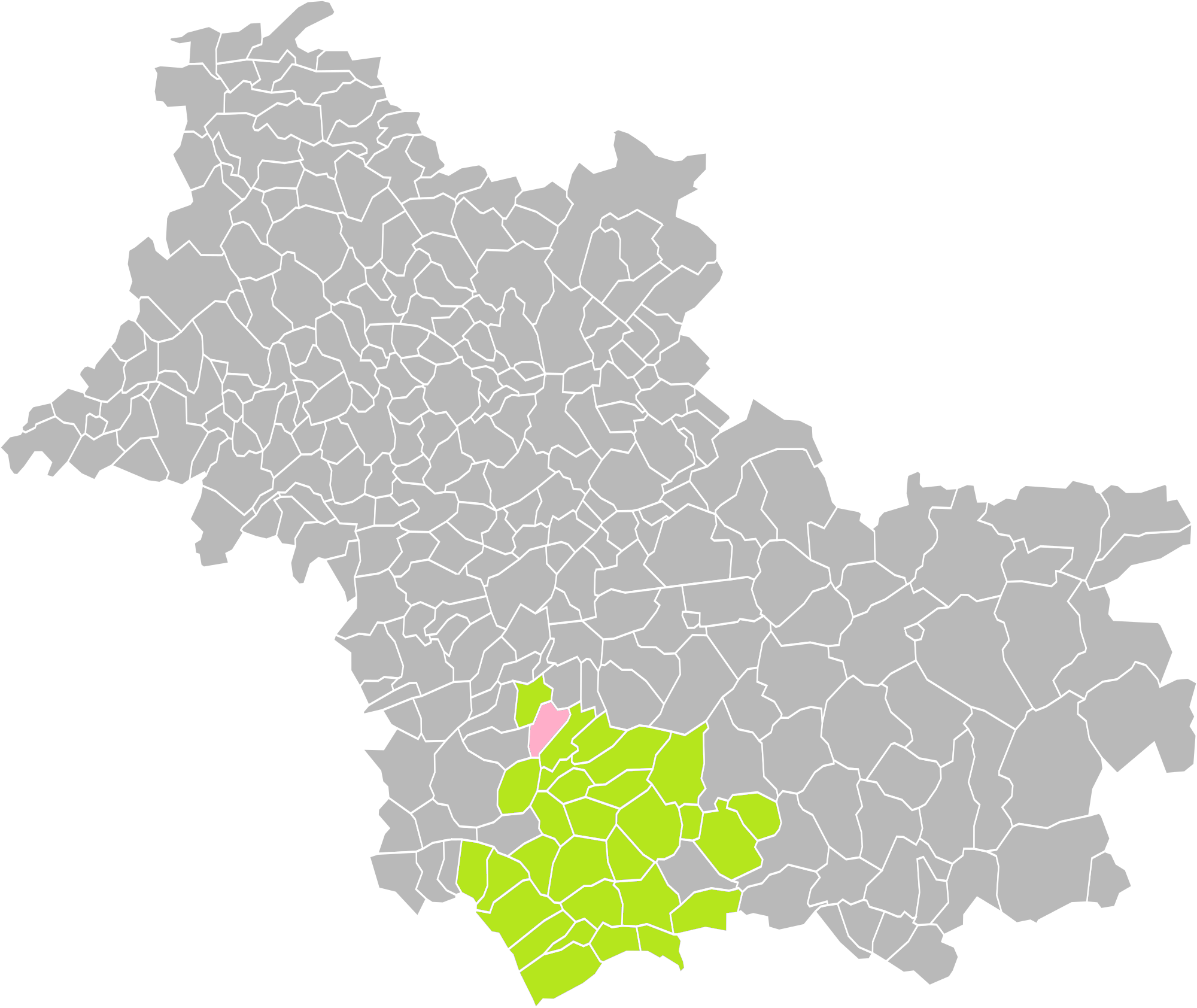 Location of the commune of Fougères-sur-Bièvre in the Communauté de communes Val de Cher - Controis (Loir-et-Cher)